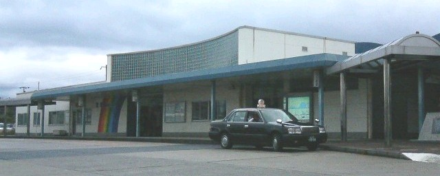 Hikari Station, Sanyō Main Line, West Japan Railway Company.